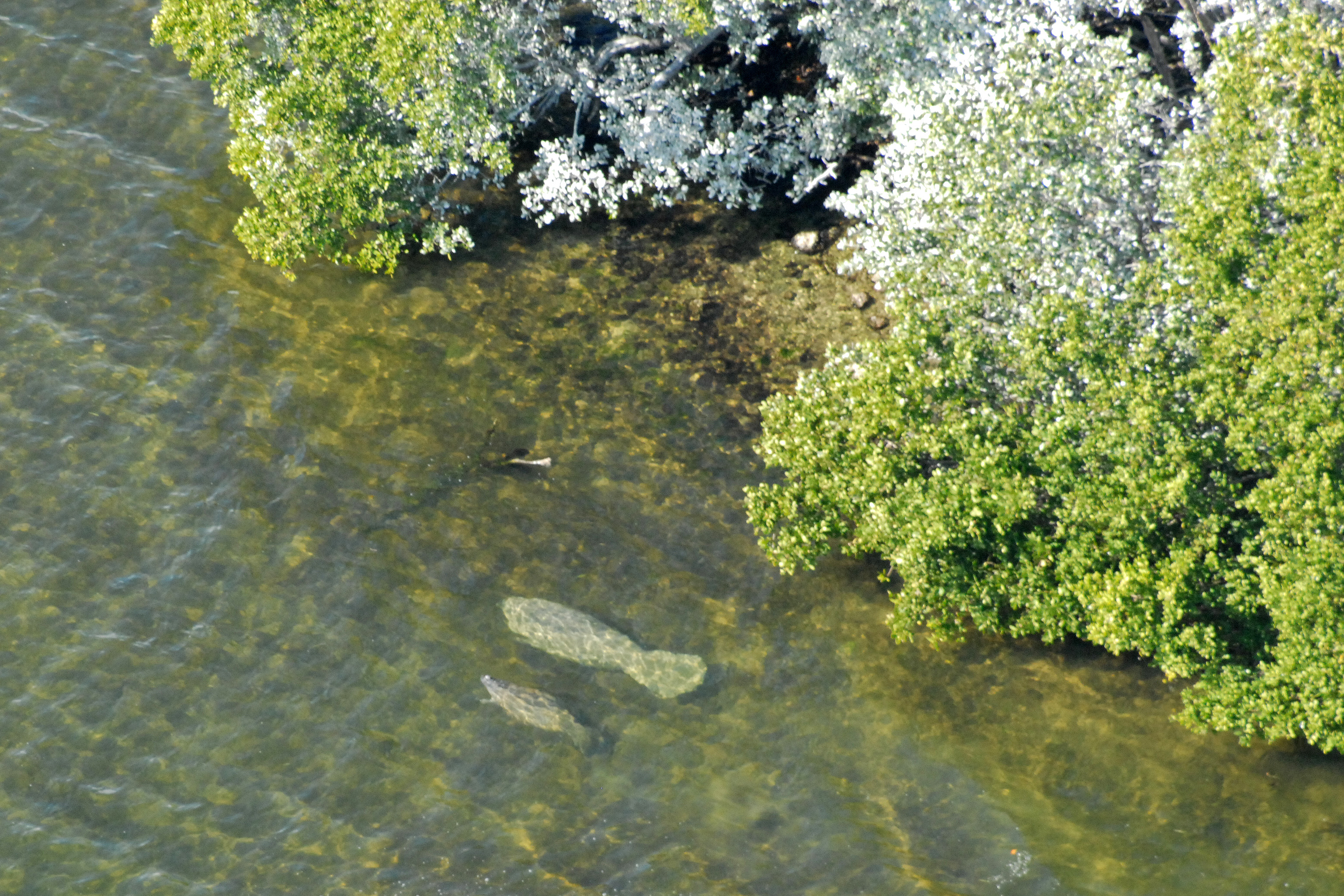 Manatees in Biscayne National Park